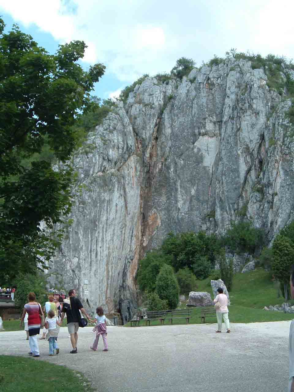 The entry of the stalictite cave in Aggtelek, Hungary